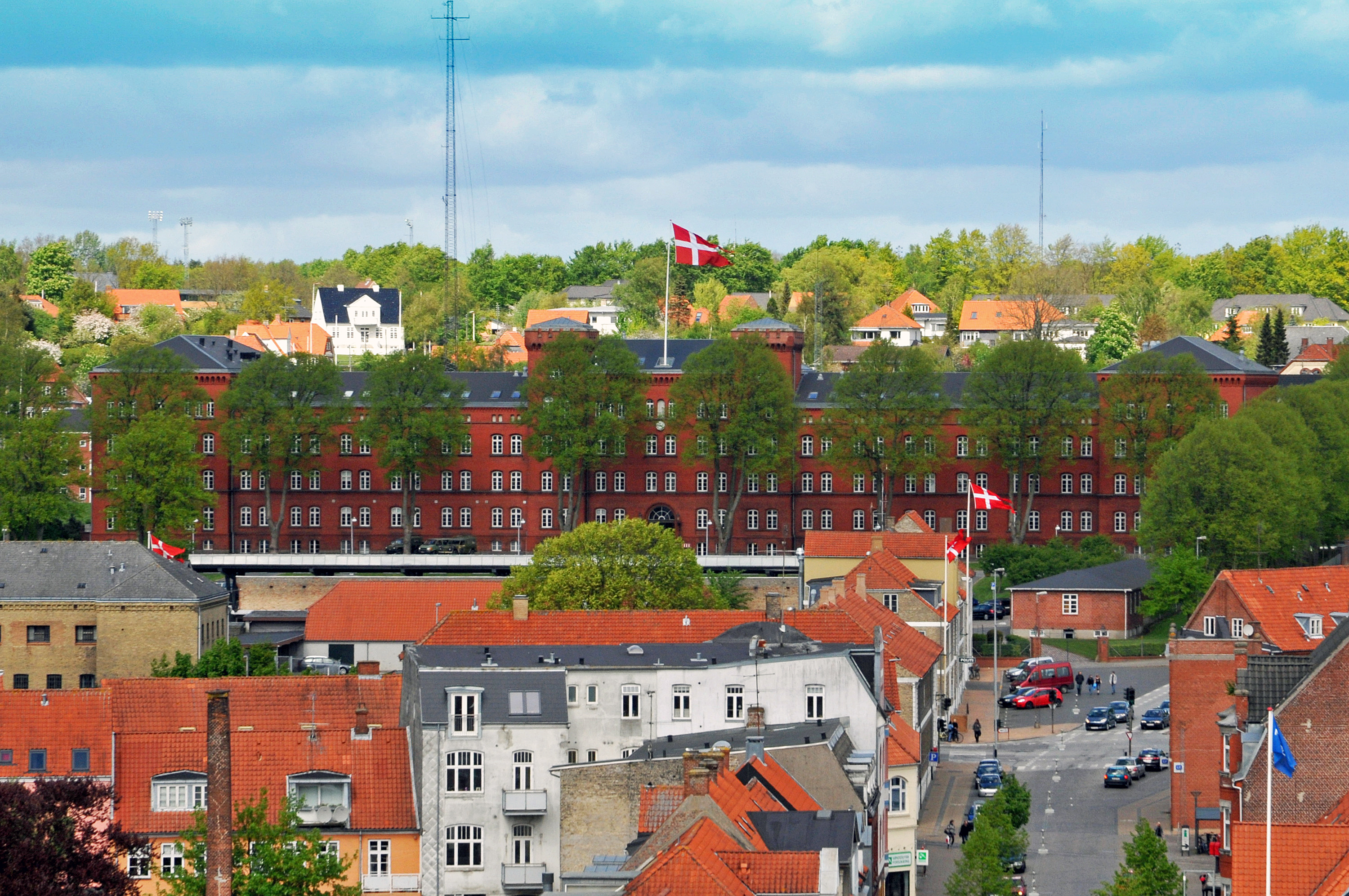 Militaire building Haderslev, Denmark